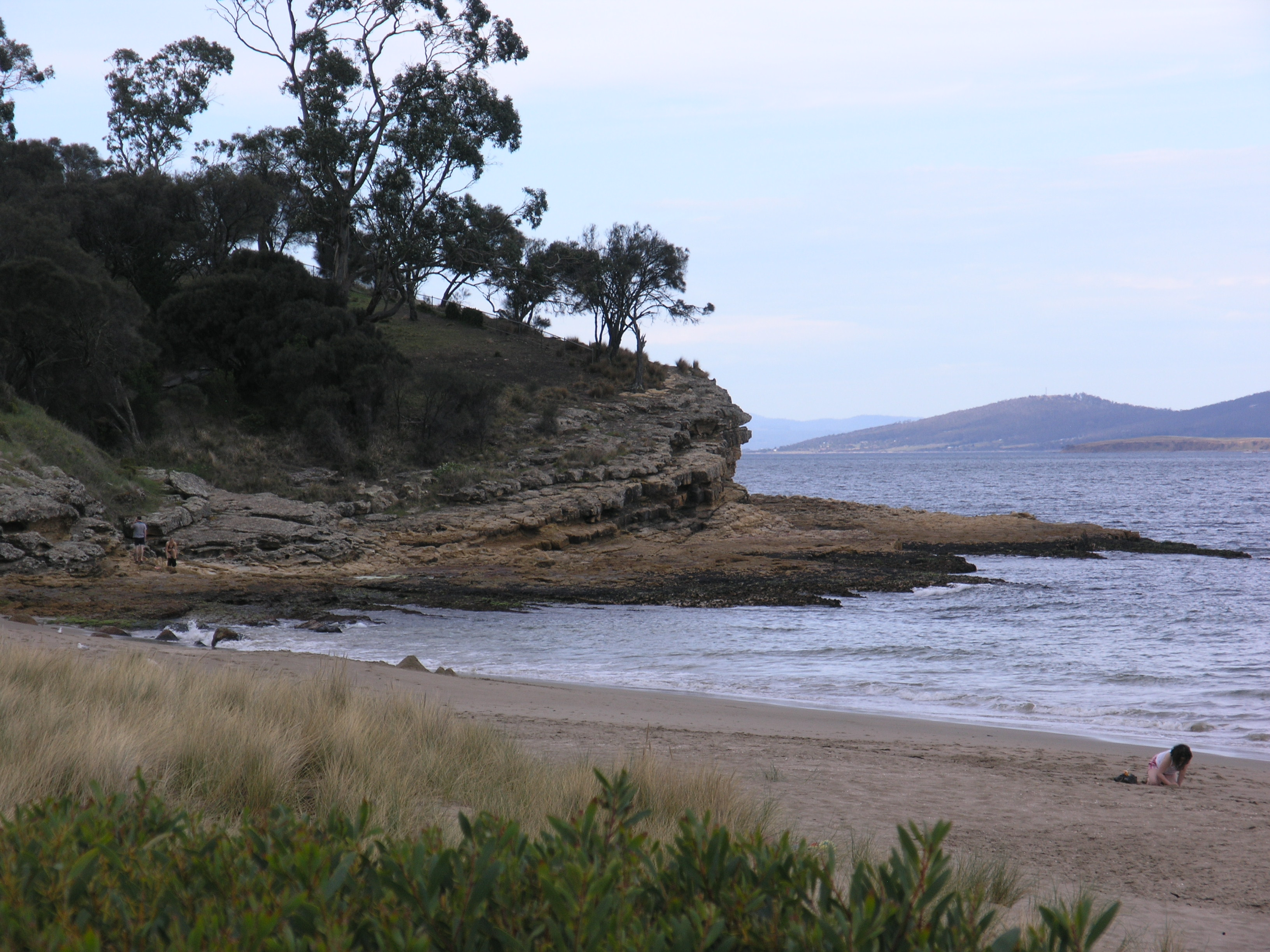 Blackmans Bay